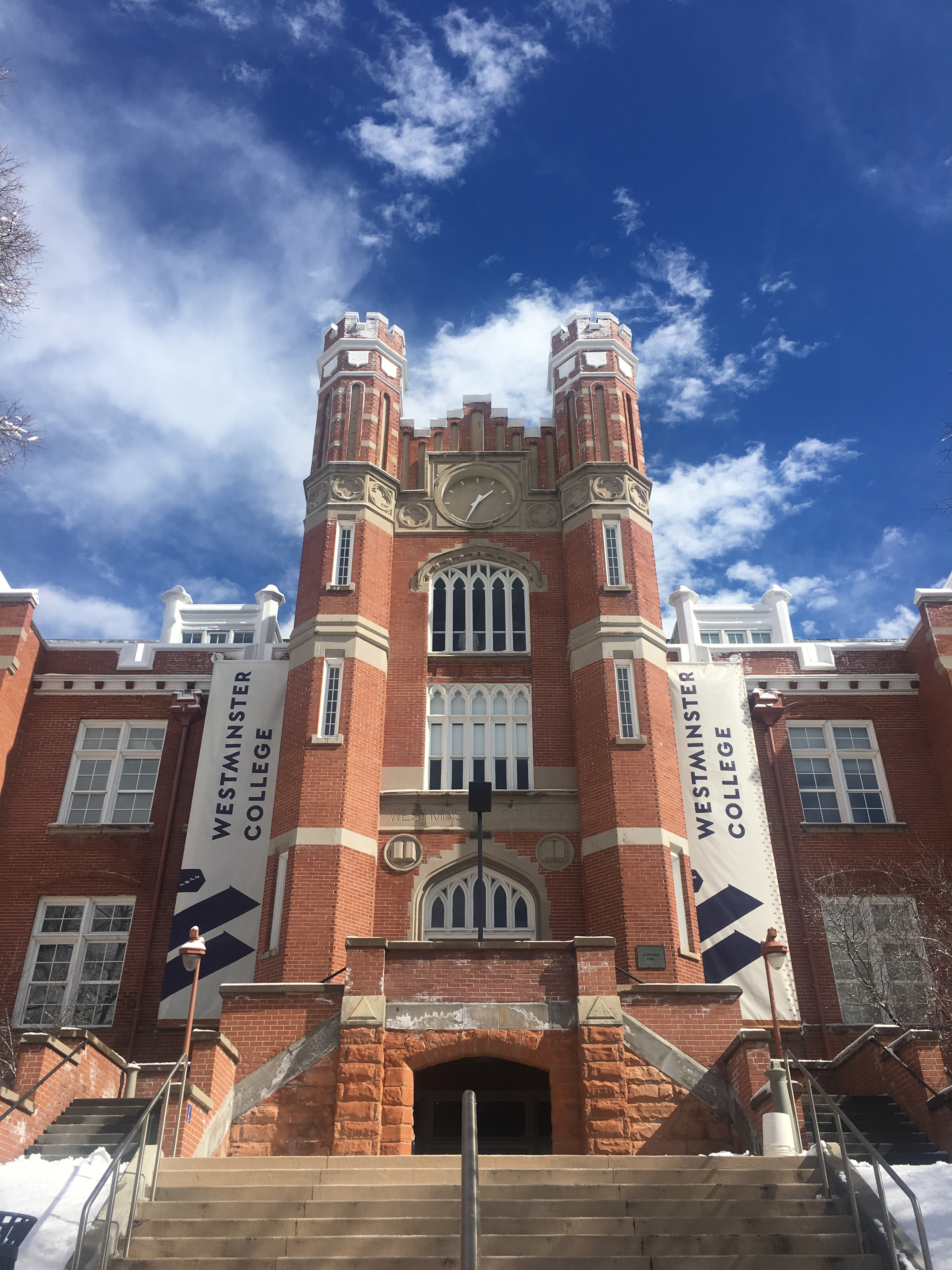 The flagship and first building on campus, Converse was completed July 1907. Today, Converse Hall includes art studios, a modern media facility, the Admissions Office, and a lounge overlooking Tanner Plaza